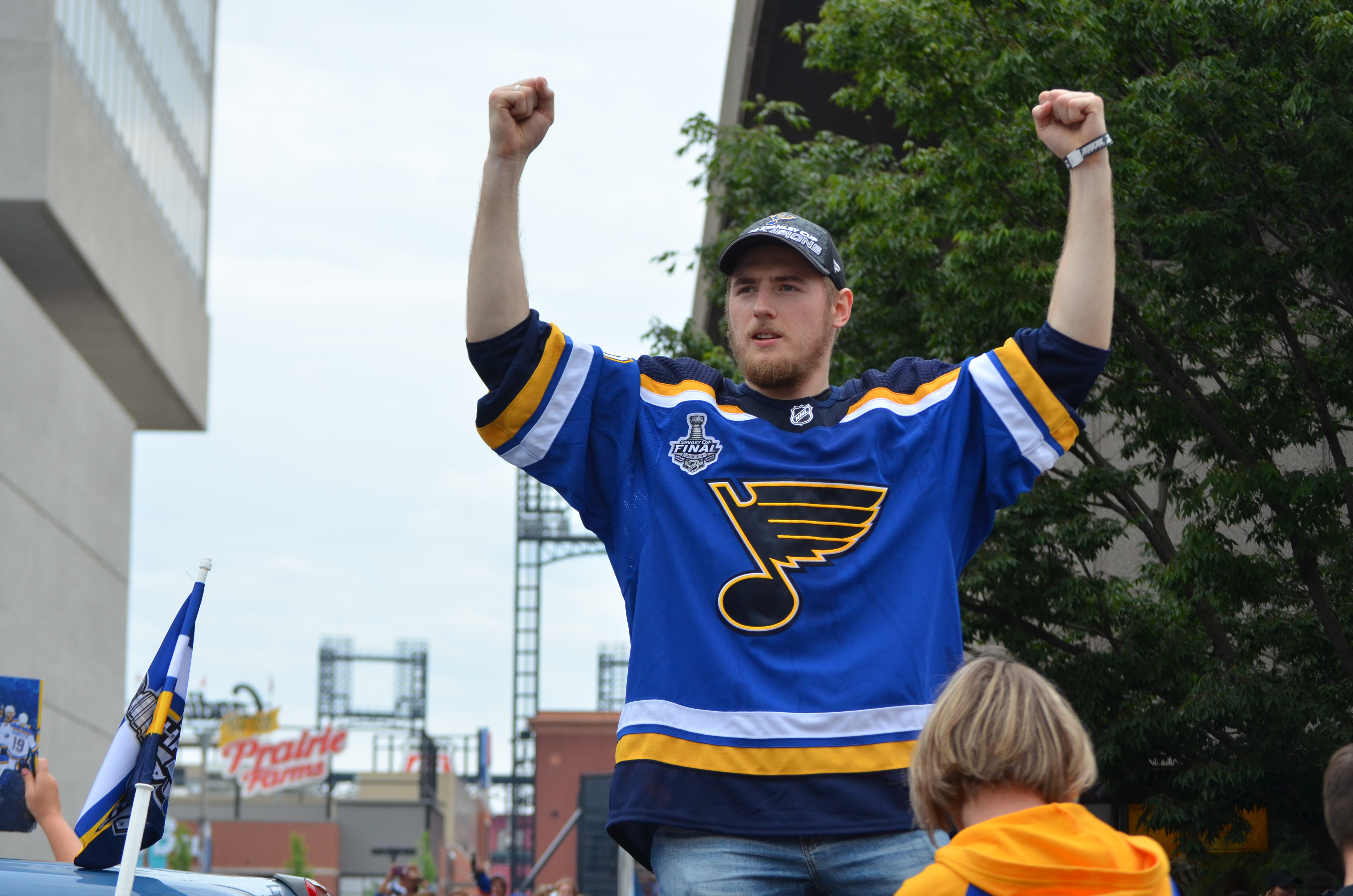 Ivan Barbashev during the 2019 Stanley Cup parade